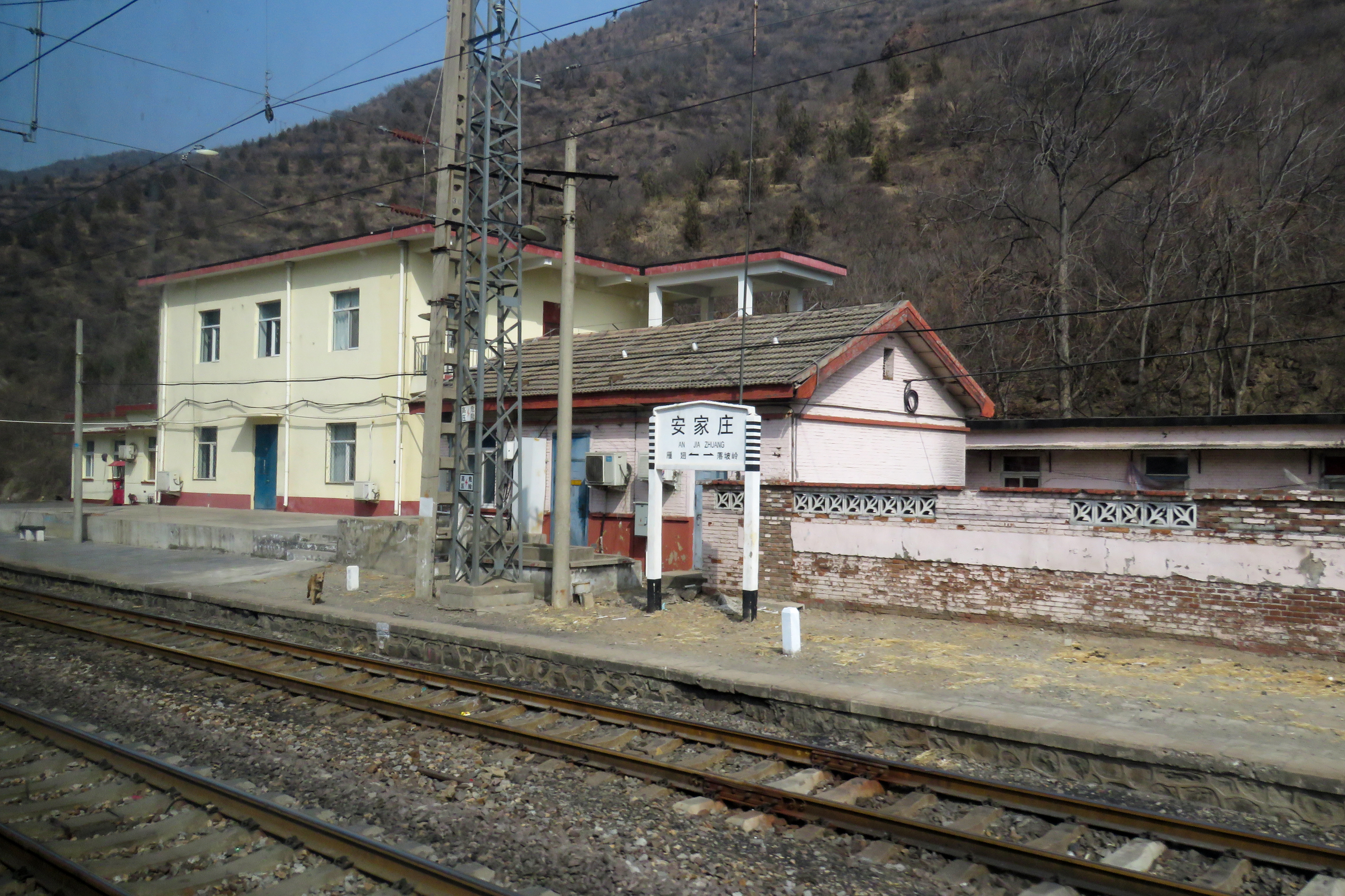 Taken from K23.